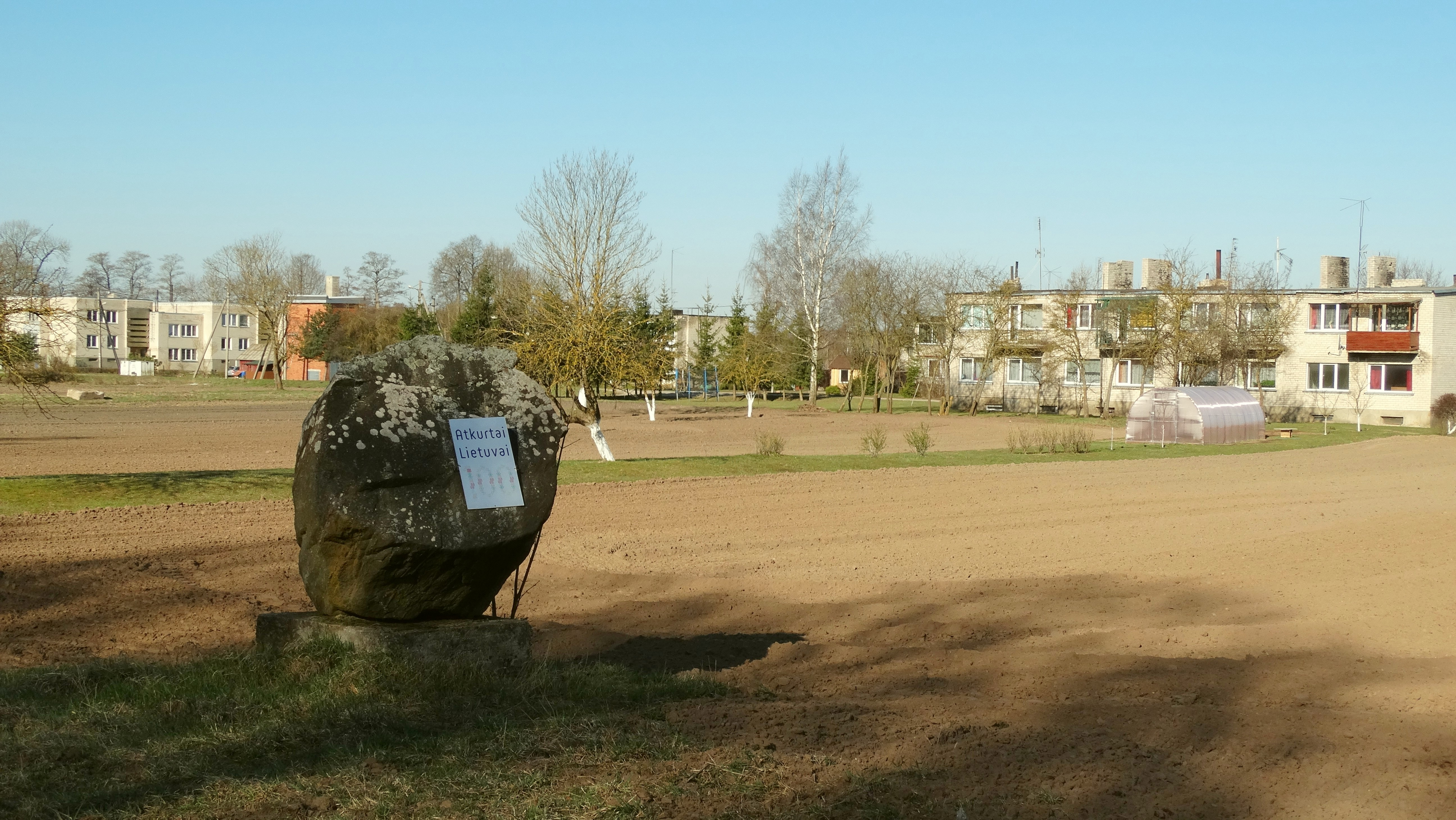 Daugėlaičiai, Radviliškis district, Lithuania